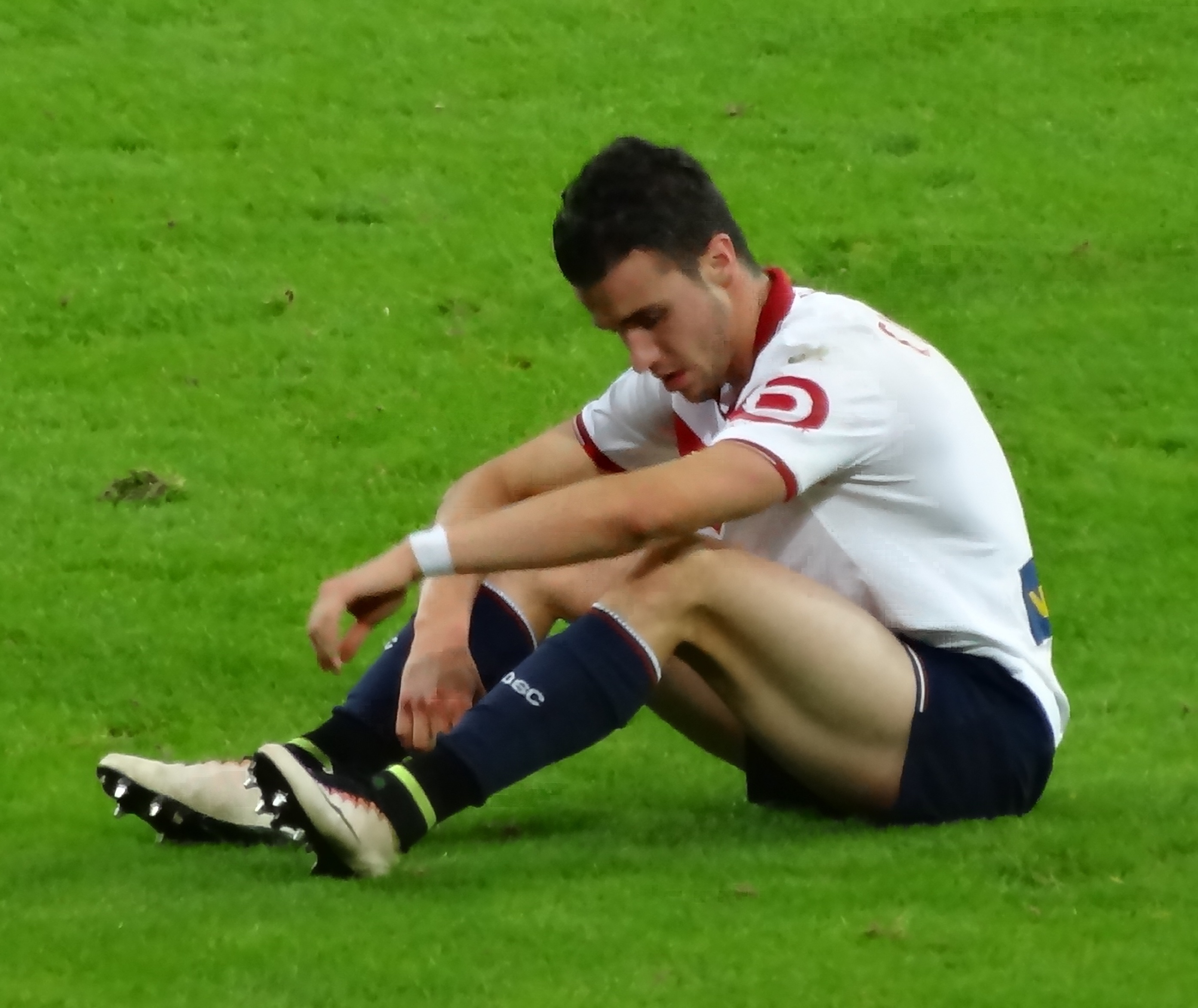 Sébastien Corchia (october 2016)